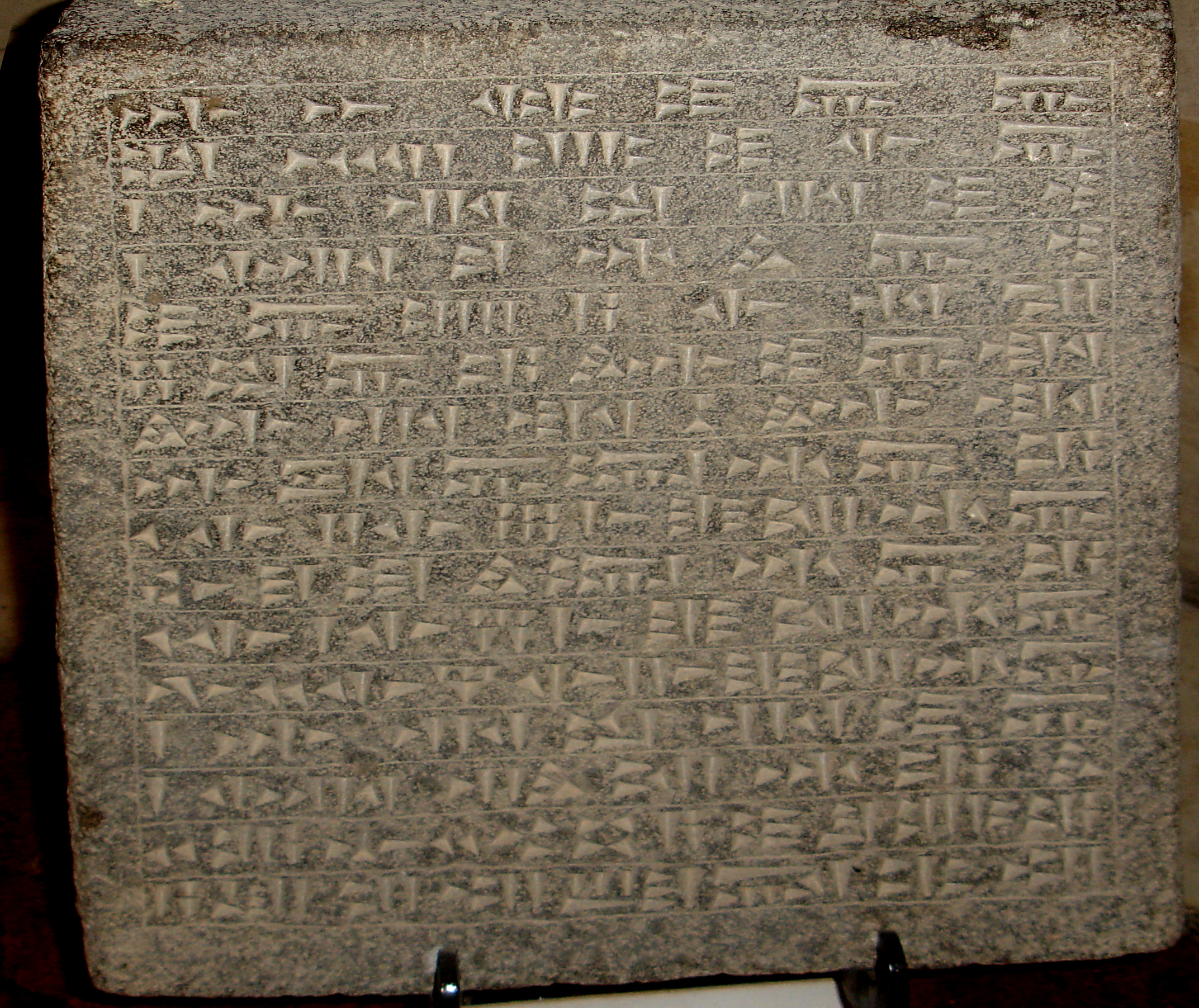 Urartian cuneiform inscription of Sarduri for a granary